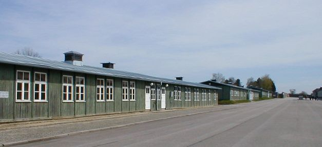 Mauthausen Concentration Camp